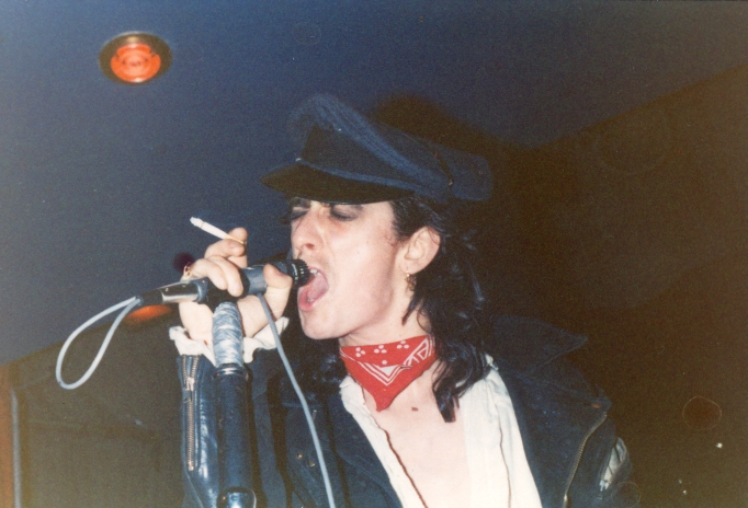 Gary Holton, singing with The Heavy Metal Kids, Croydon, 1974